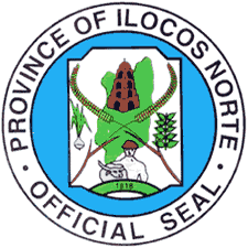 Provincial seal of Ilocos Norte, Philippines.